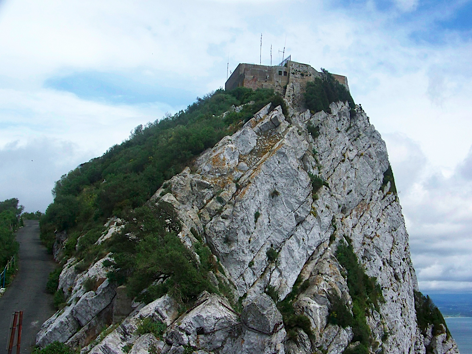 View of the Signal Station on the Rock of Gibraltar looking north.